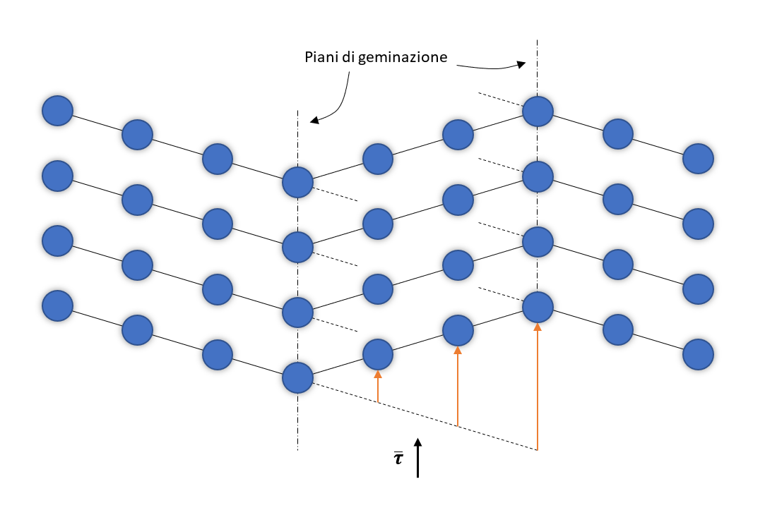 The shear stress (indicated by the greek letter tau) forces a rearrangement of the atoms in a disposition which is the mirror image of both the previous one and the non-deformed portion of the lattice.